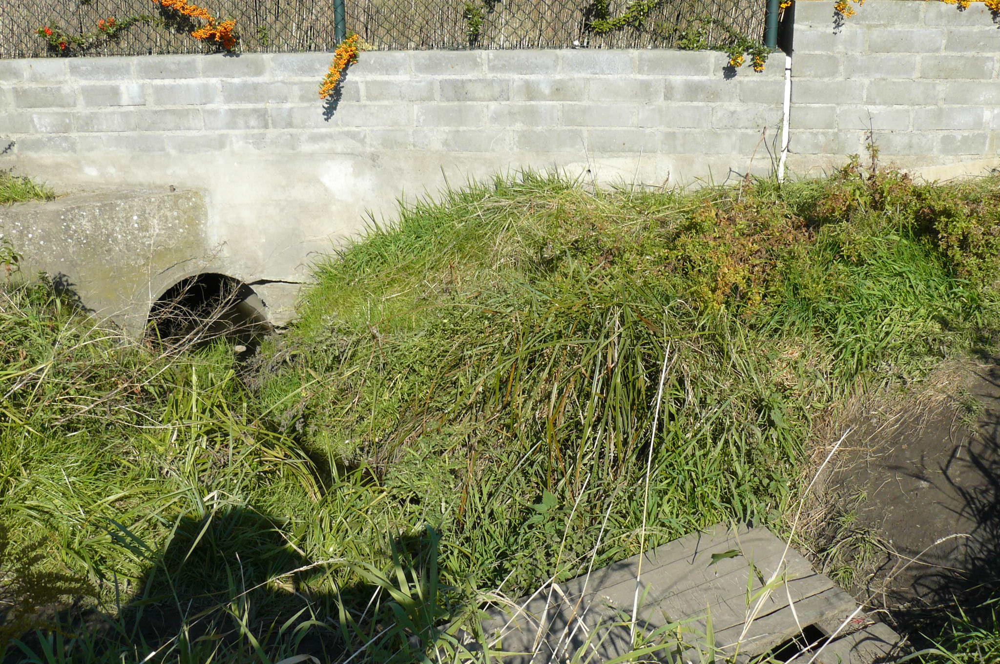 Krzyzanka River, Poznan.